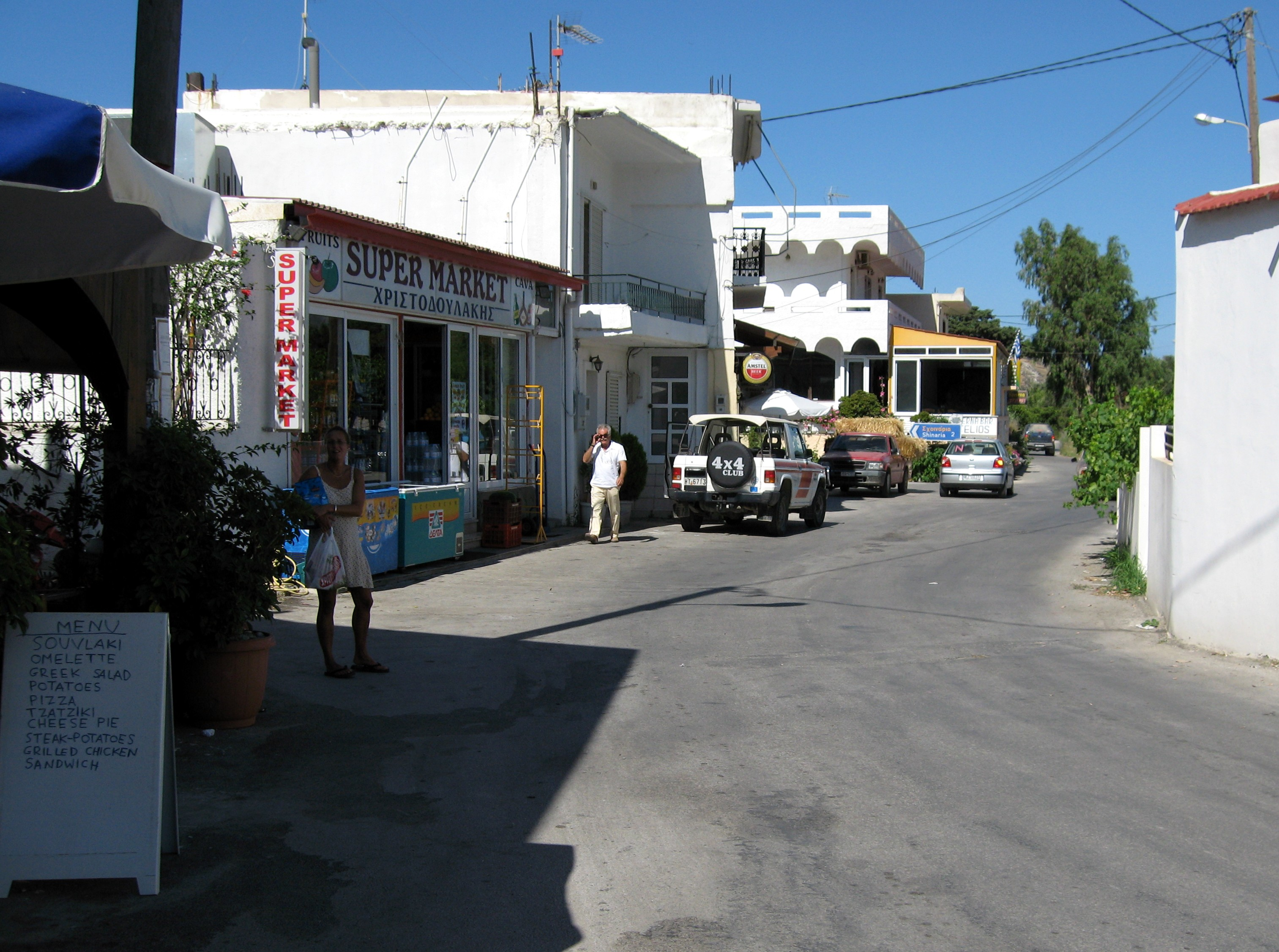 Lefkogia, Finikas, Nomos Rethymno, Crete, Greece